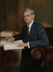 Portrait of former congressman (not President) James P. Buchanan of Texas.